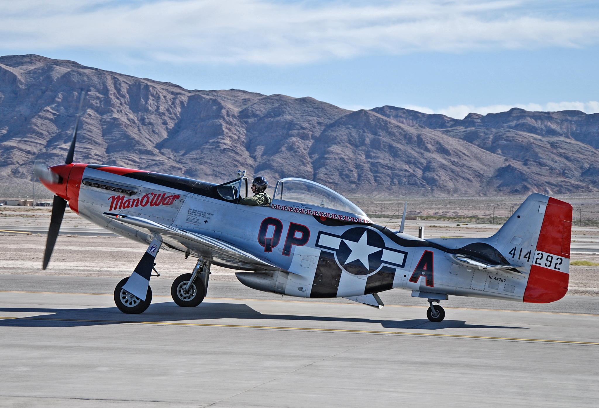 Aviation Nation 2012 Las Vegas - Nellis AFB (LSV / KLSV) USA - Nevada, November 10, 2012 Photo: Tomas Del Coro